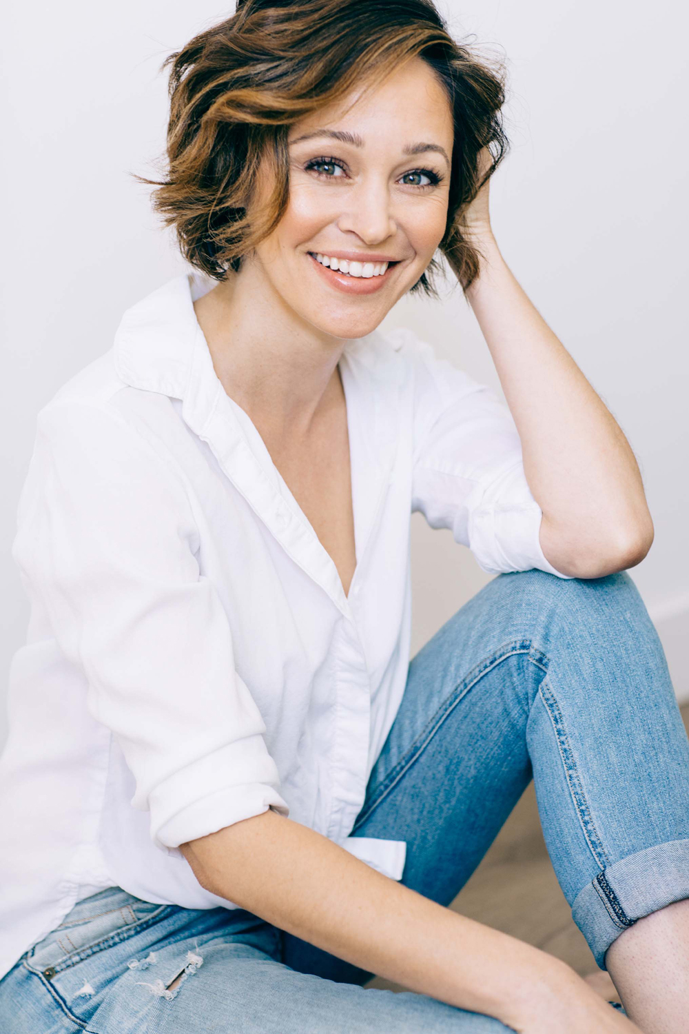 Actress Autumn Reeser (2019)